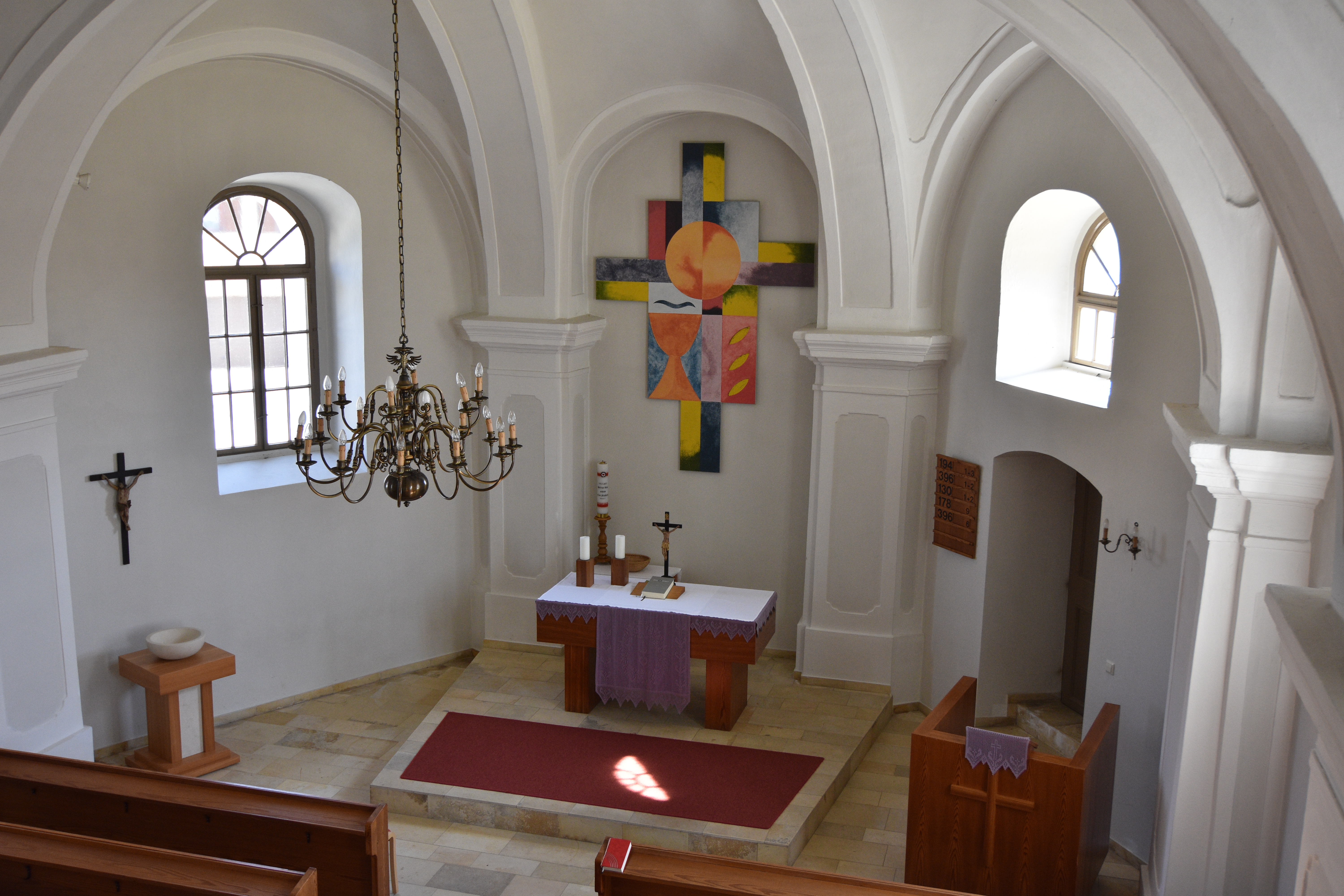 Church Evangelische Pfarrkirche Holzschlag - Interior